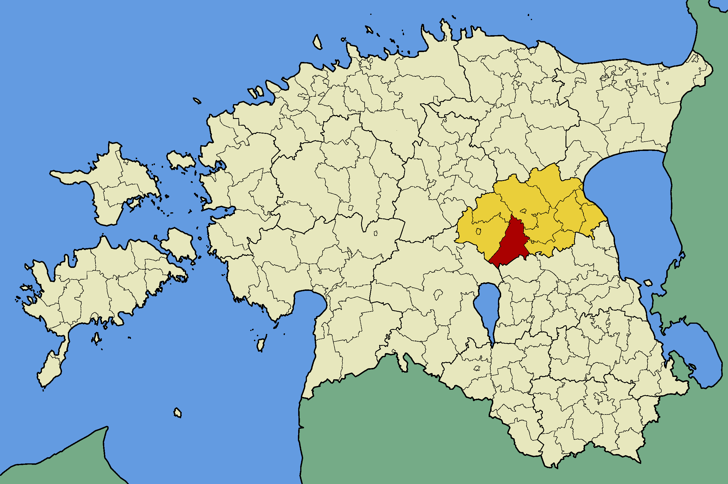 Map of Estonia with borders of municipalities (parishes). Jõgeva county and Puurmani municipality emphasized.